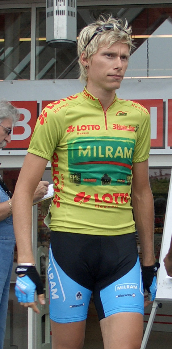 Christian Knees at race in Germany